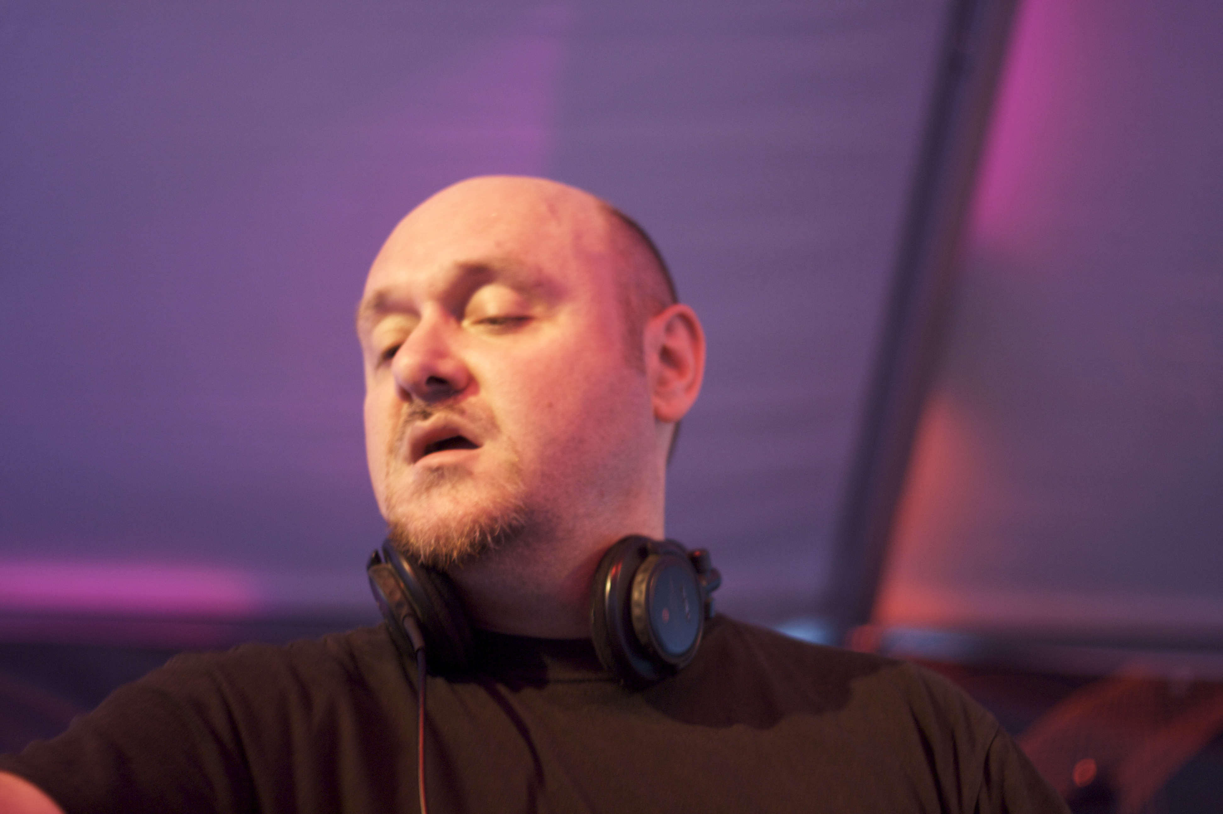 Kirk Degiorgio during a performance as DJ (2010)